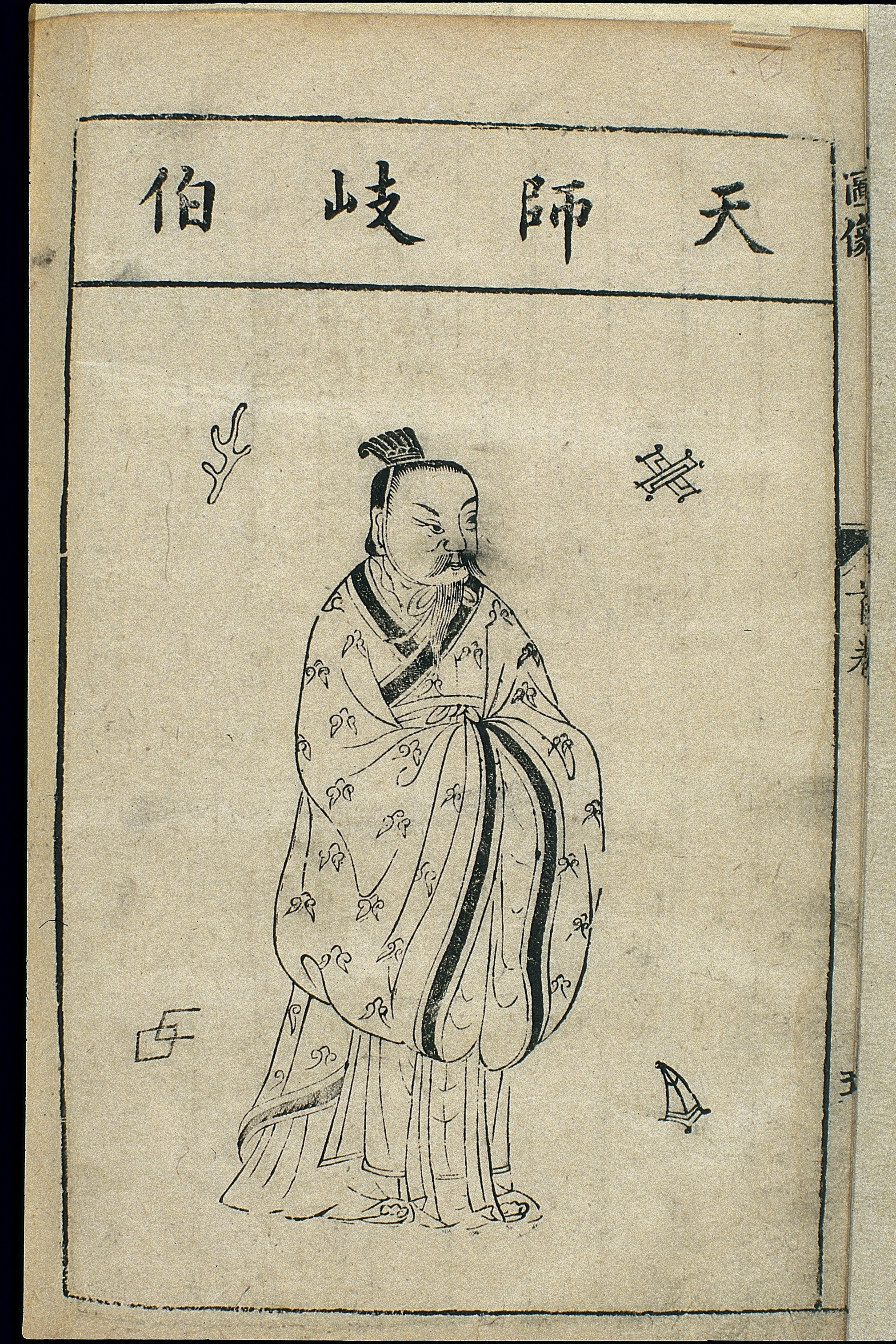 One of a series of woodcuts of illustrious physicians and legendary founders of Chinese medicine from an edition ofBencao mengquan(Introduction to the Pharmacopoeia), engraved in the Wanli reign period of the Ming dynasty (1573-1620) -- Volume preface, 'Lidai mingyi hua xingshi' (Portraits and names of famous doctors through history). The images are attributed to a Tang (618-907) creator, Gan Bozong.The account in 'Portraits and Names of Famous Doctors through History' states: Qibo, a minister of the Yellow Emperor (Huangdi), was the Emperor's mentor in matters of medicine, which earnt him the title Celestial Master (Tianshi). The conversations of the Yellow Emperor and Qibo on medical theory, etc., are recorded in theSuwen(Plain Questions) section ofHuangdi neijing(Inner Canon of the Yellow Emperor).Woodcut By: Gan Bozong (Tang period, 618-907)